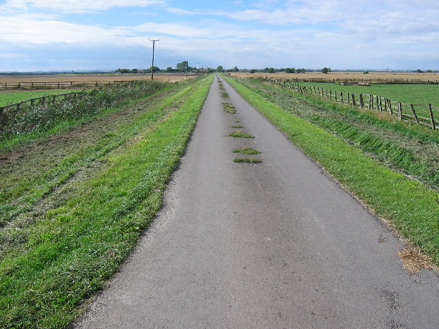 The road from Wilfholme Landing, Wilfholme, East Riding of Yorkshire, England.This grid square is very flat land, a mix of pasture and crops. The road runs diagonally across the square from Wilfholme landing in the NE corner.